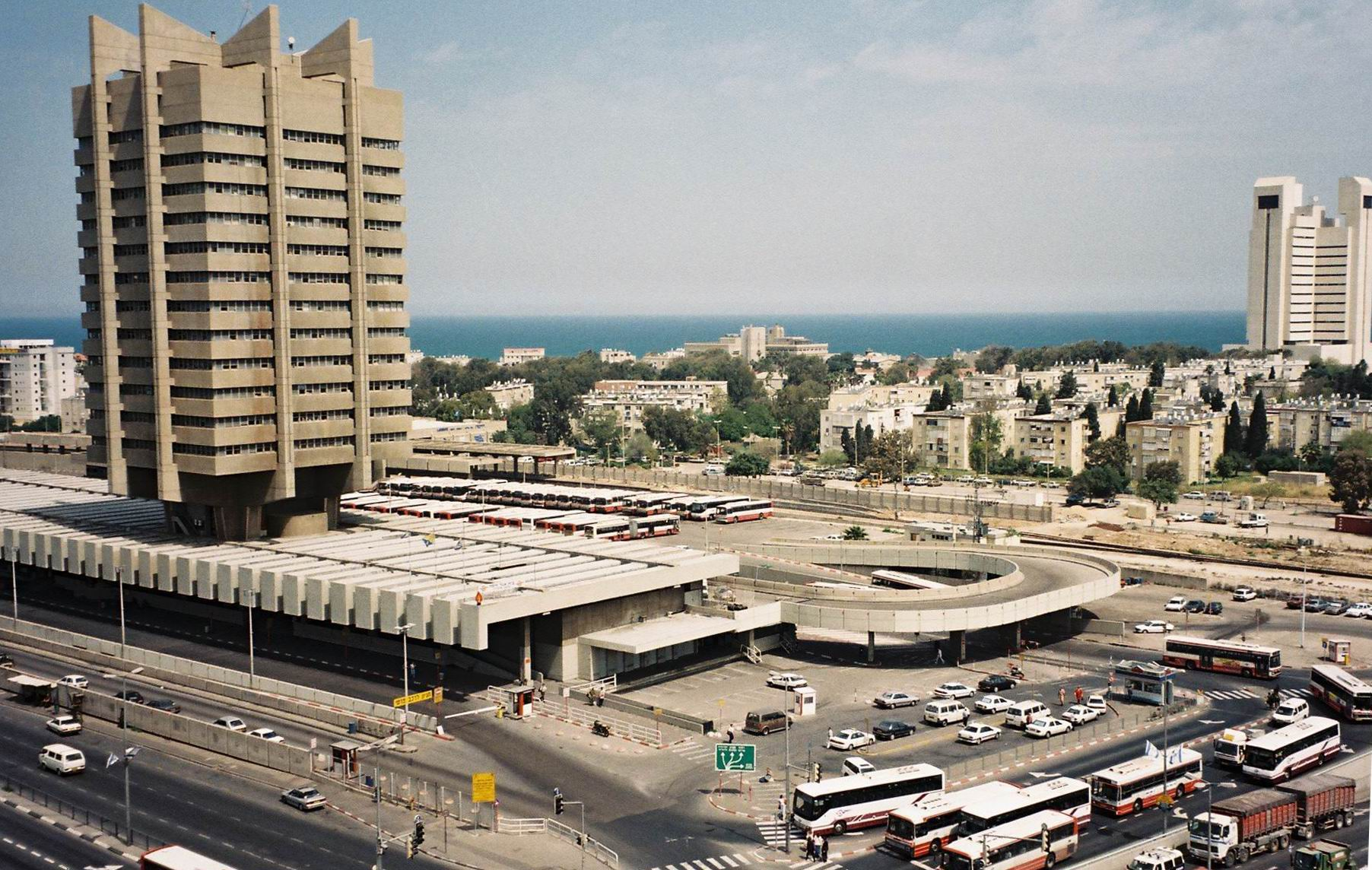 Architecture of Israel